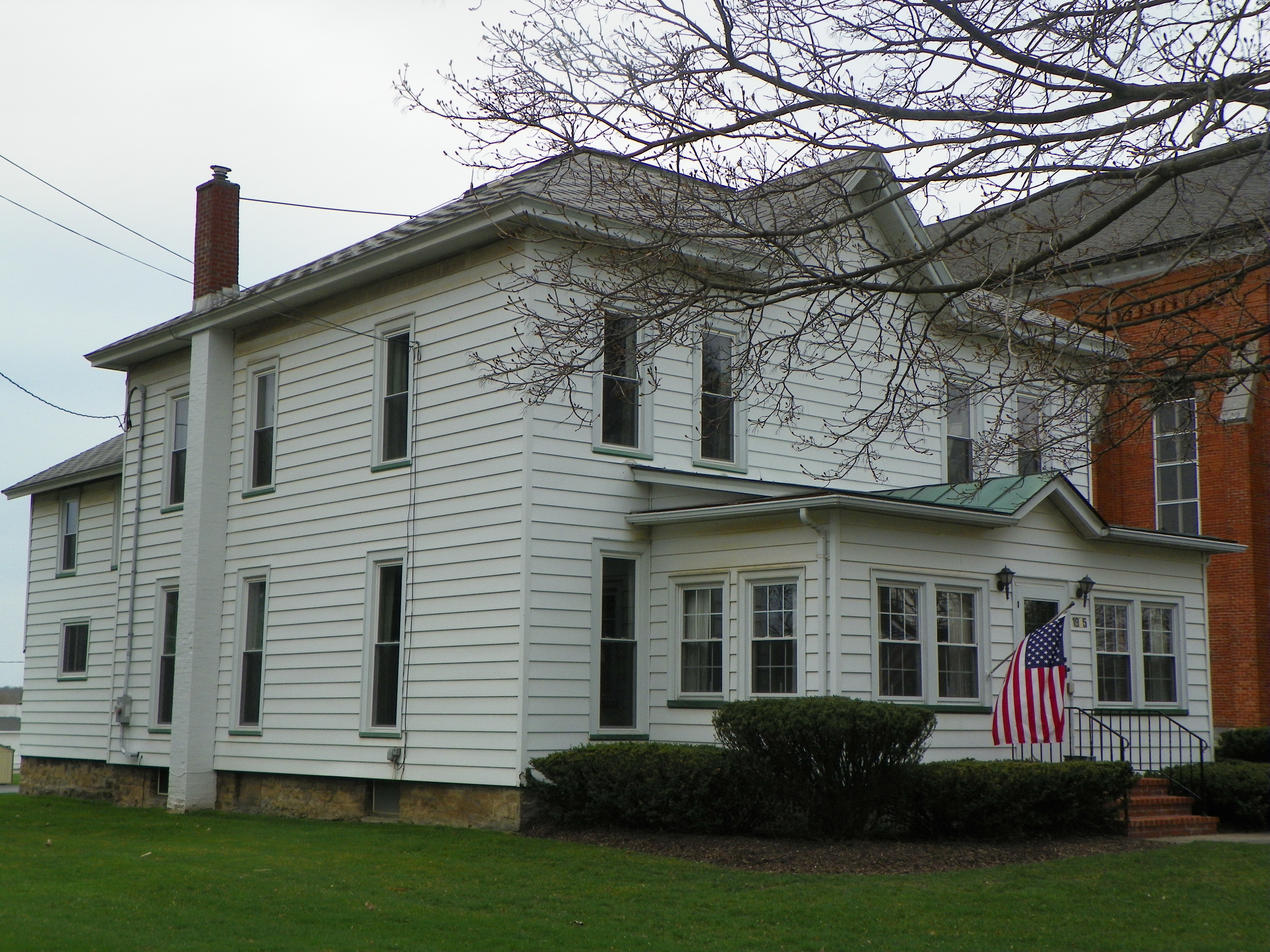 St. Rose Roman Catholic Church Complex parish house Lake Ave Lima NY